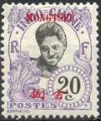 Stamp of Mongtzeu. French post office in Mengzi City, China (1903-1919)